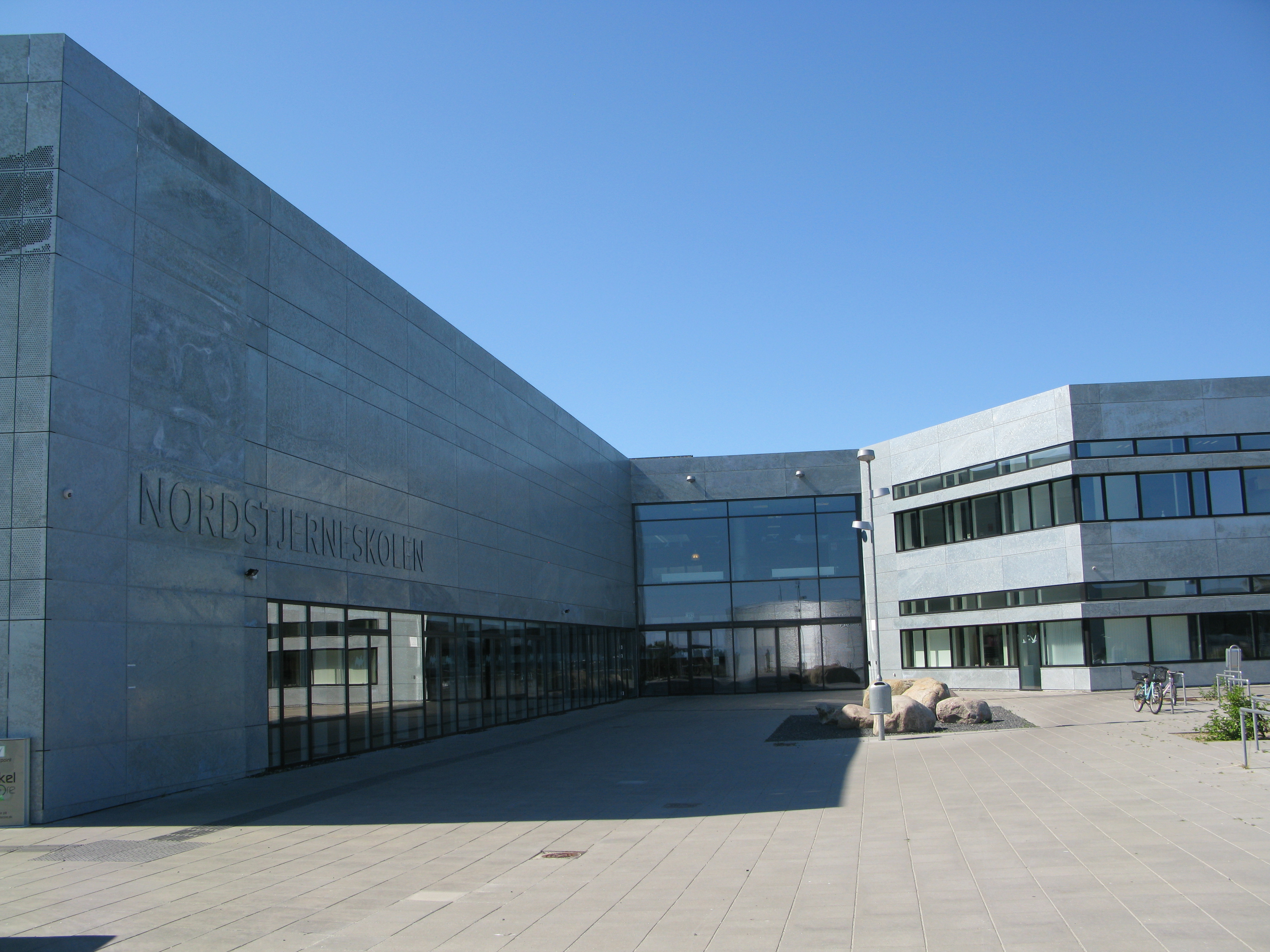 Comprehensive school of Frederikshavn, Northern Denmark